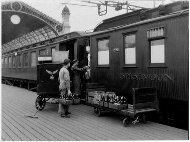 Norsk Spisevognselskap delivering produce at Oslo East Station